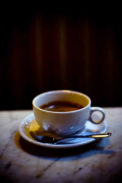 Grosser Mokka is viennese for "a large espresso"